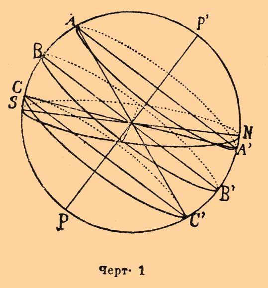 Illustration from Brockhaus and Efron Encyclopedic Dictionary (1890—1907)